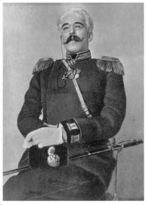 Stanislavski as Vershinin in Chekhov’s “The Three Sisters”